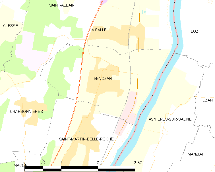 Map of French municipality